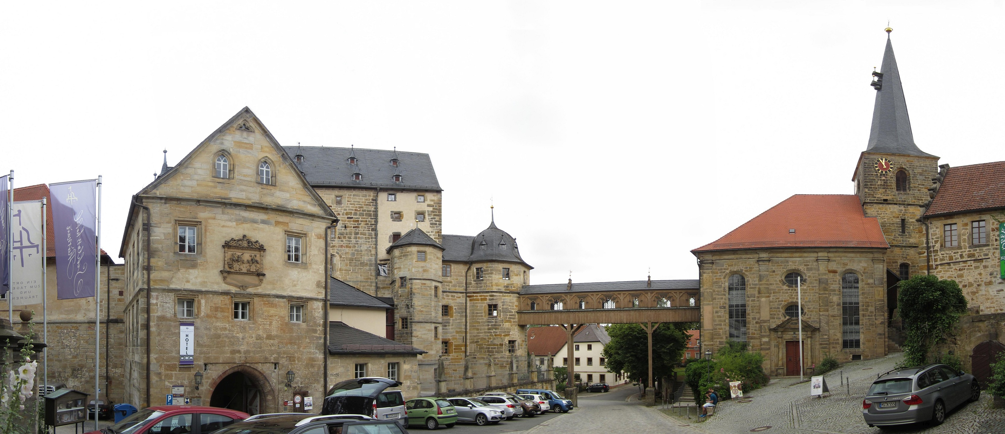 Thurnau castle and church St. Laurentius